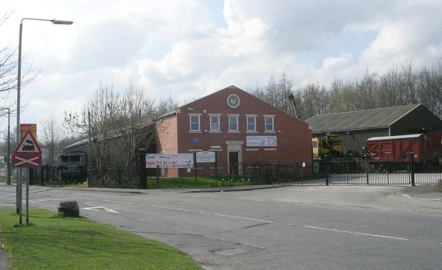 Middleton Railway Engine House - Beza Street